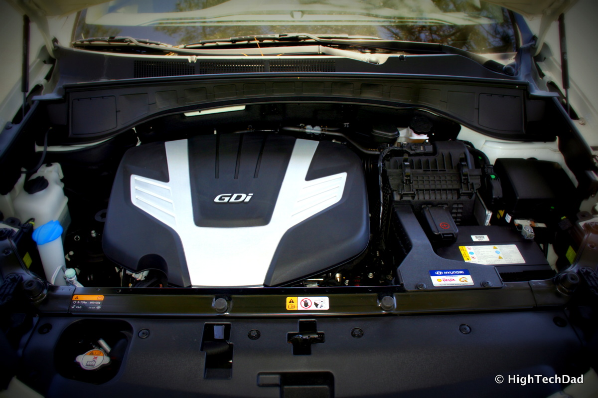 Photos of the 2014 Hyundai Santa Fe Limited SUV. More reviews found at